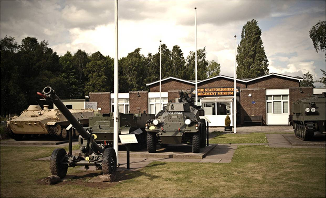 The Staffordshire Regiment Museum, regimental, military museum, Whittington, Lichfield, Staffordshire, England